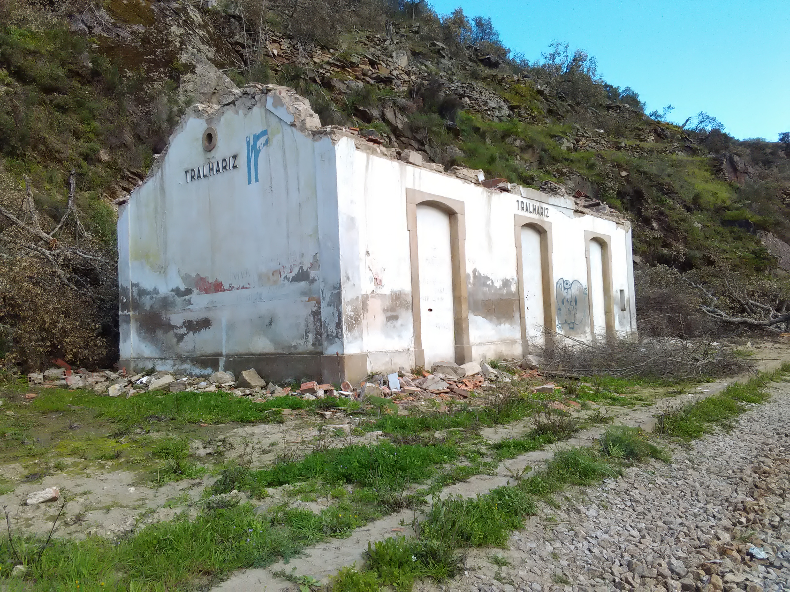 Tralhariz station after partial demolition for the construction of Tua Dam (Trás-os-Montes e Alto Douro, Portugal)